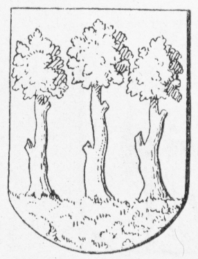 Coat of arms of Sokkelund Herred (Hundred), a former administrative subdivision of Denmark, 1648 version. Illustration from the article Om danske By- og Herredsvaaben written by Anders Thiset and published in Tidsskrift for Kunstindustri 1893-1894.